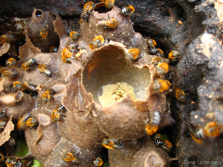 Pollen storage pot inside a Melipona scutellaris (stingless bee) nest